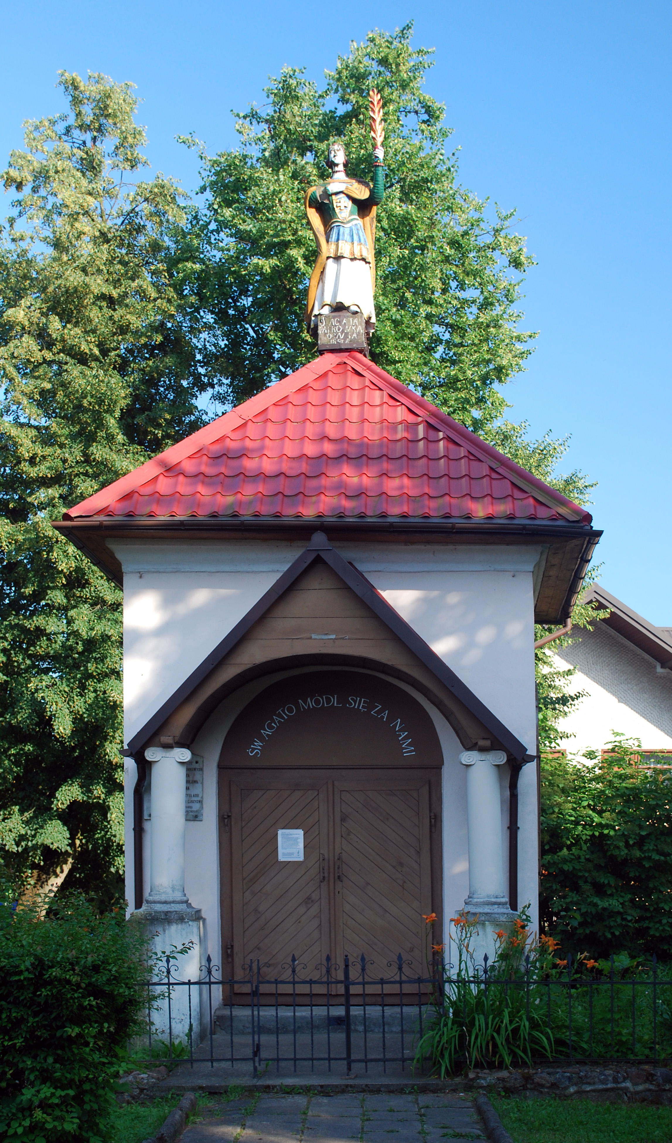 This photo from Podlaskie Voievodeship was taken during Polish Wikiexpedition 2009 set up by Wikimedia Polska Association. The making of this document was supported by Wikimedia Polska. Kaplica św. Agaty w Sejnach. 05.1983.